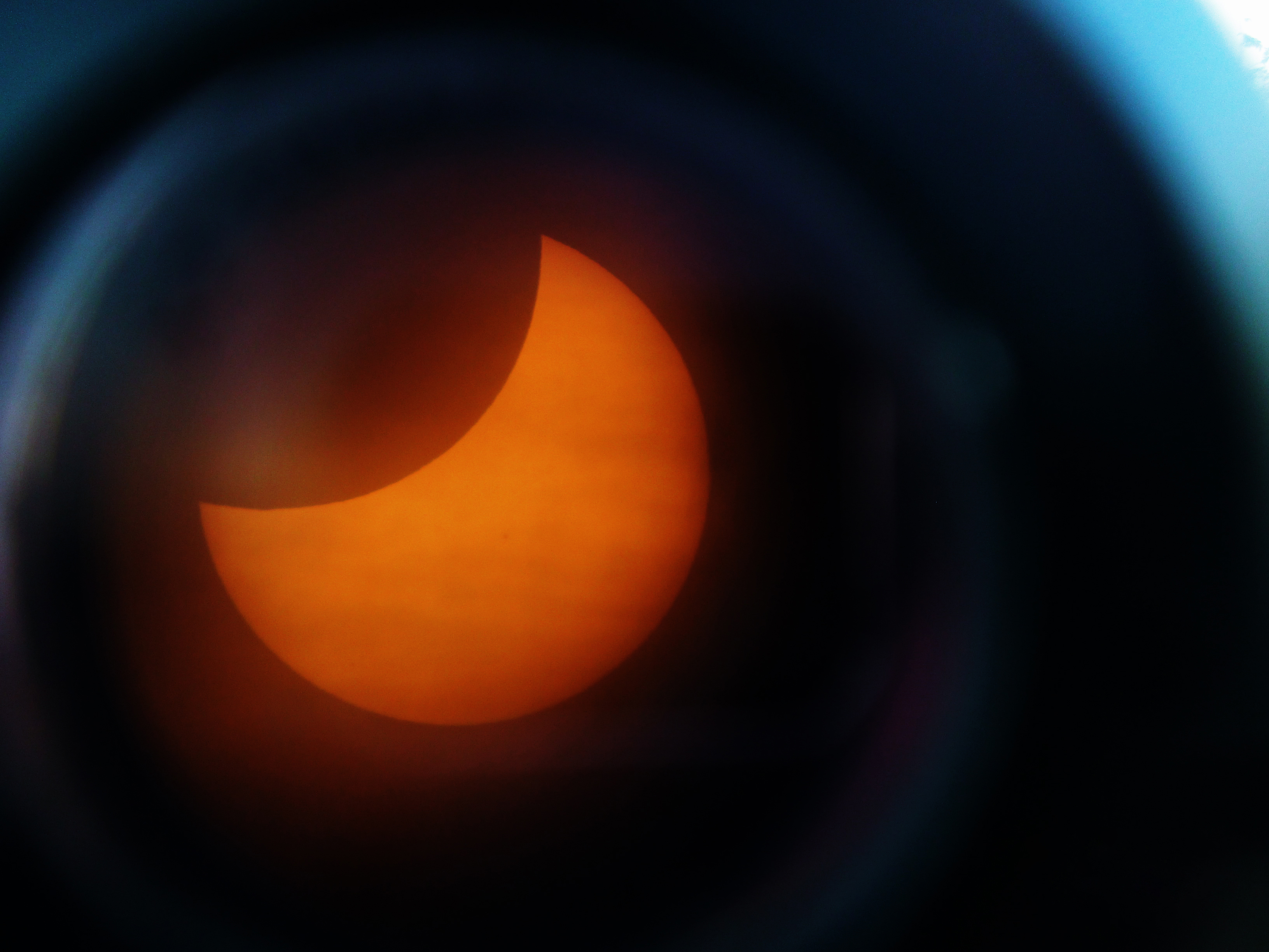 Solar Eclipse from Telescope's viewfinder. Complex KKU Khon Kaen University, Thailand. March 9, 2106.